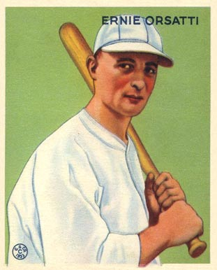 1933 Goudey baseball card of Ernie Orsatti of the St. Louis Cardinals #201. PD-not-renewed.